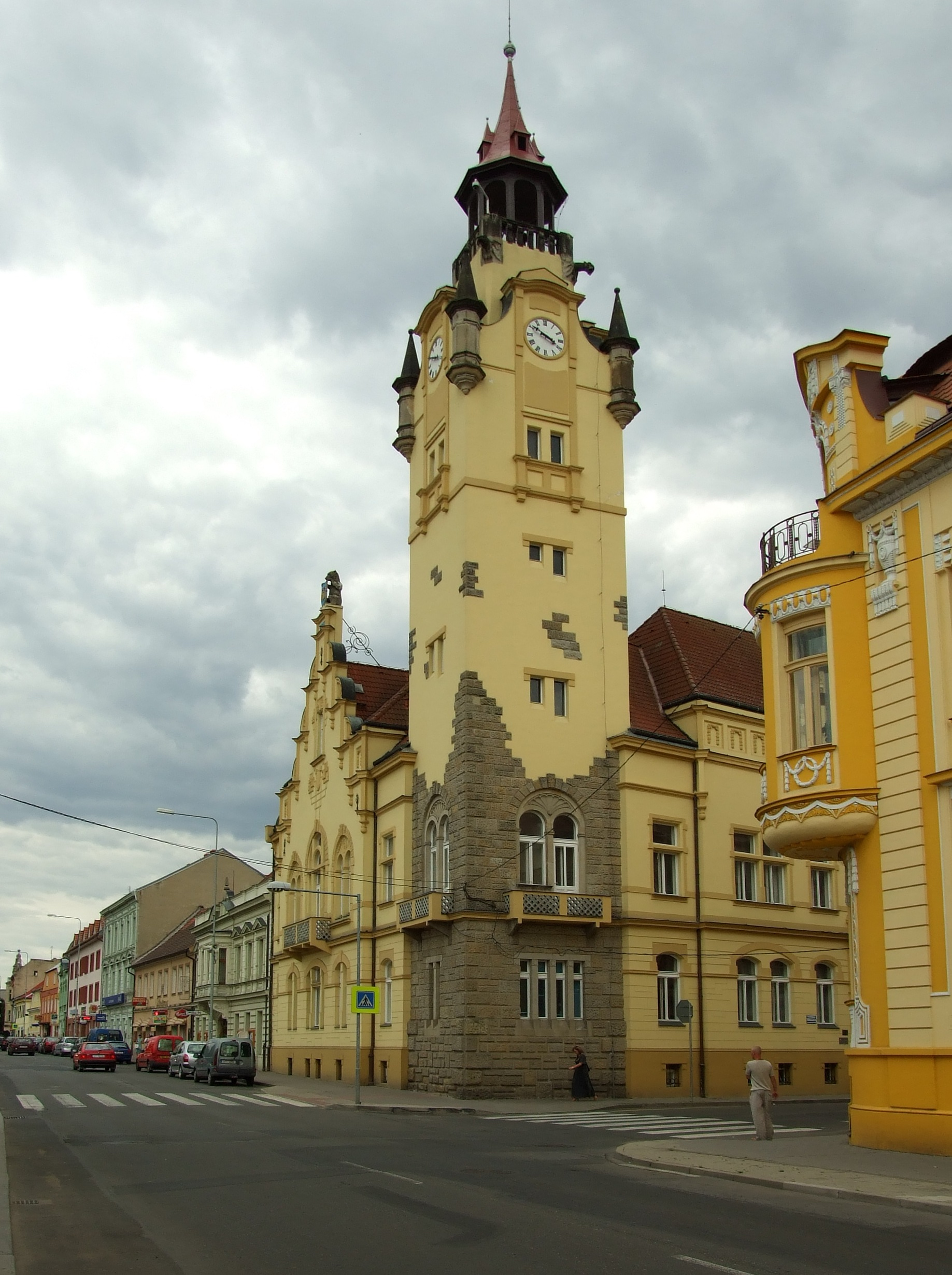 City of Lovosice, Litoměřice district, Ústí nad Labem Region, CZhelp